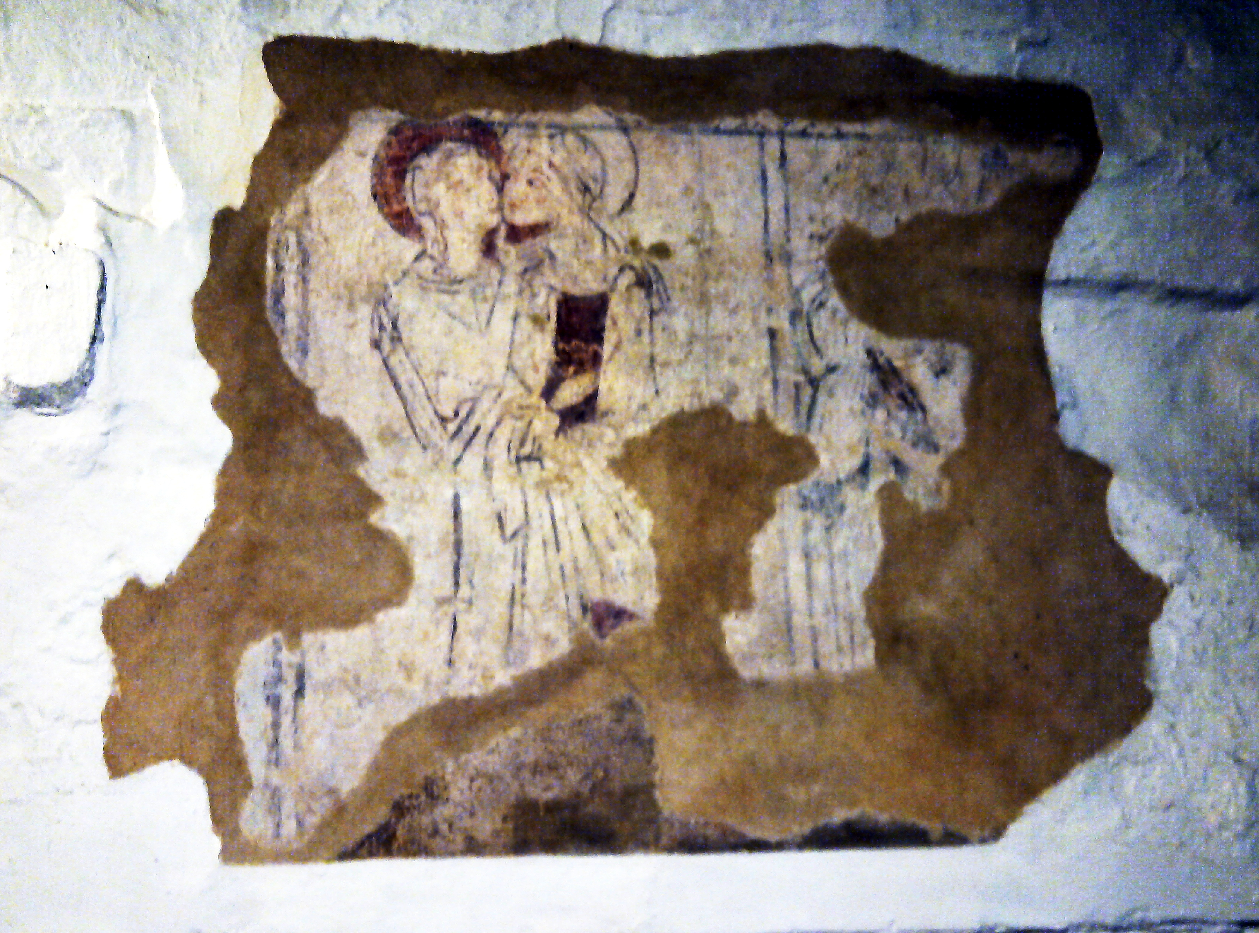 Wall painting, 13th century, of the Visitation, the encounter between Mary and Elizabeth. All Saints' Church, Dale Abbey, Derbyshire.